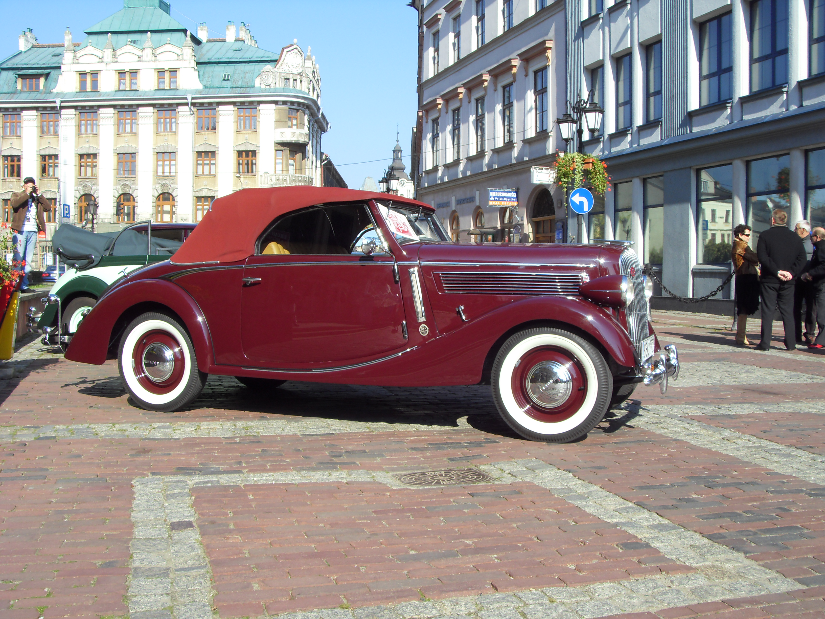 1938 Opel Super 6 Gläser Cabrio during I Beskidzki Zlot Pojazdów Zabytkowych